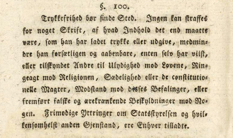 The Norwegian Constitution of 1814's article on Freedom of Expression as enacted (Danish language, Fraktur font). Although amended several times since 1814, §100 is still in force.